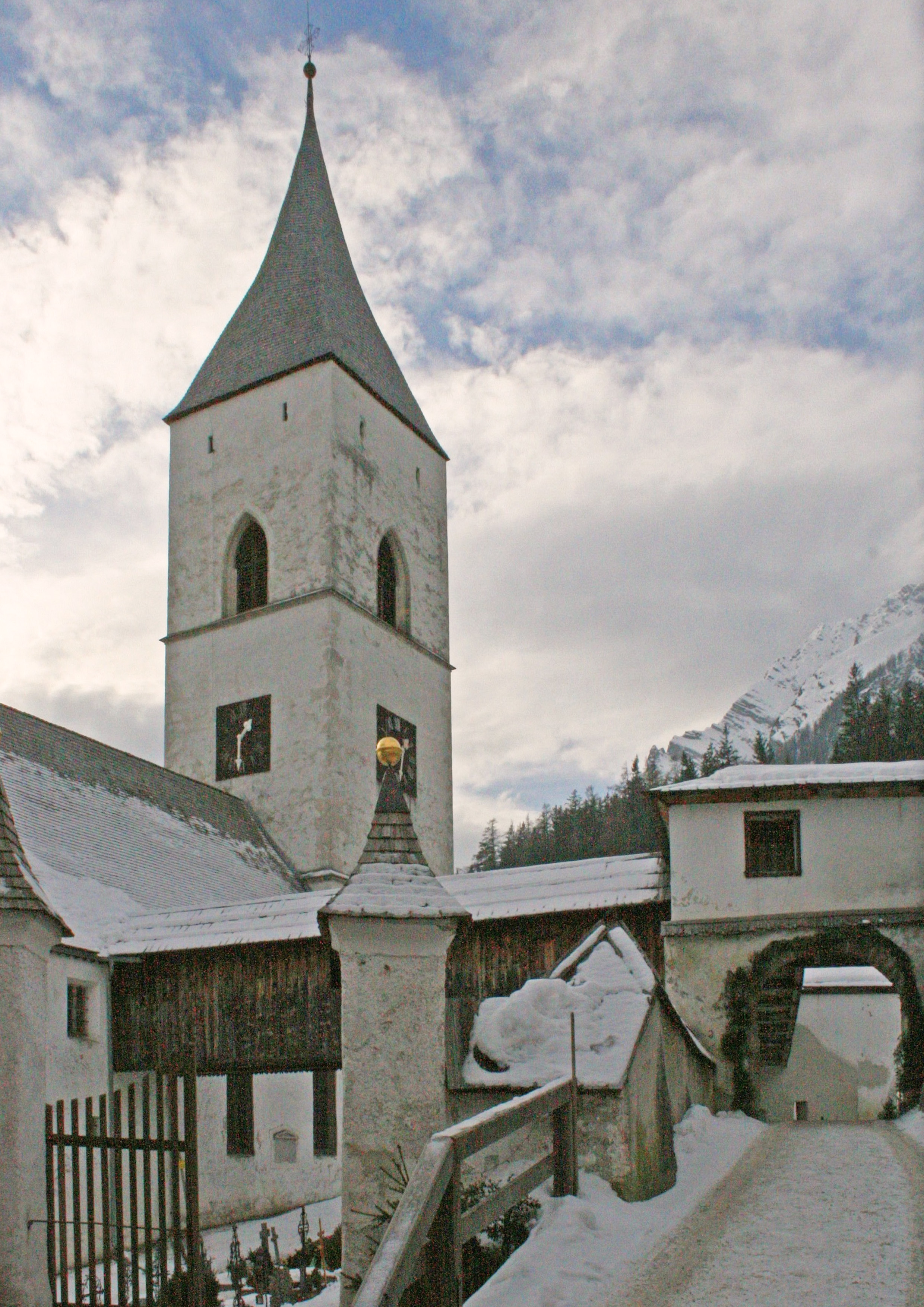 St.George church in Pürgg, Styria, Austria